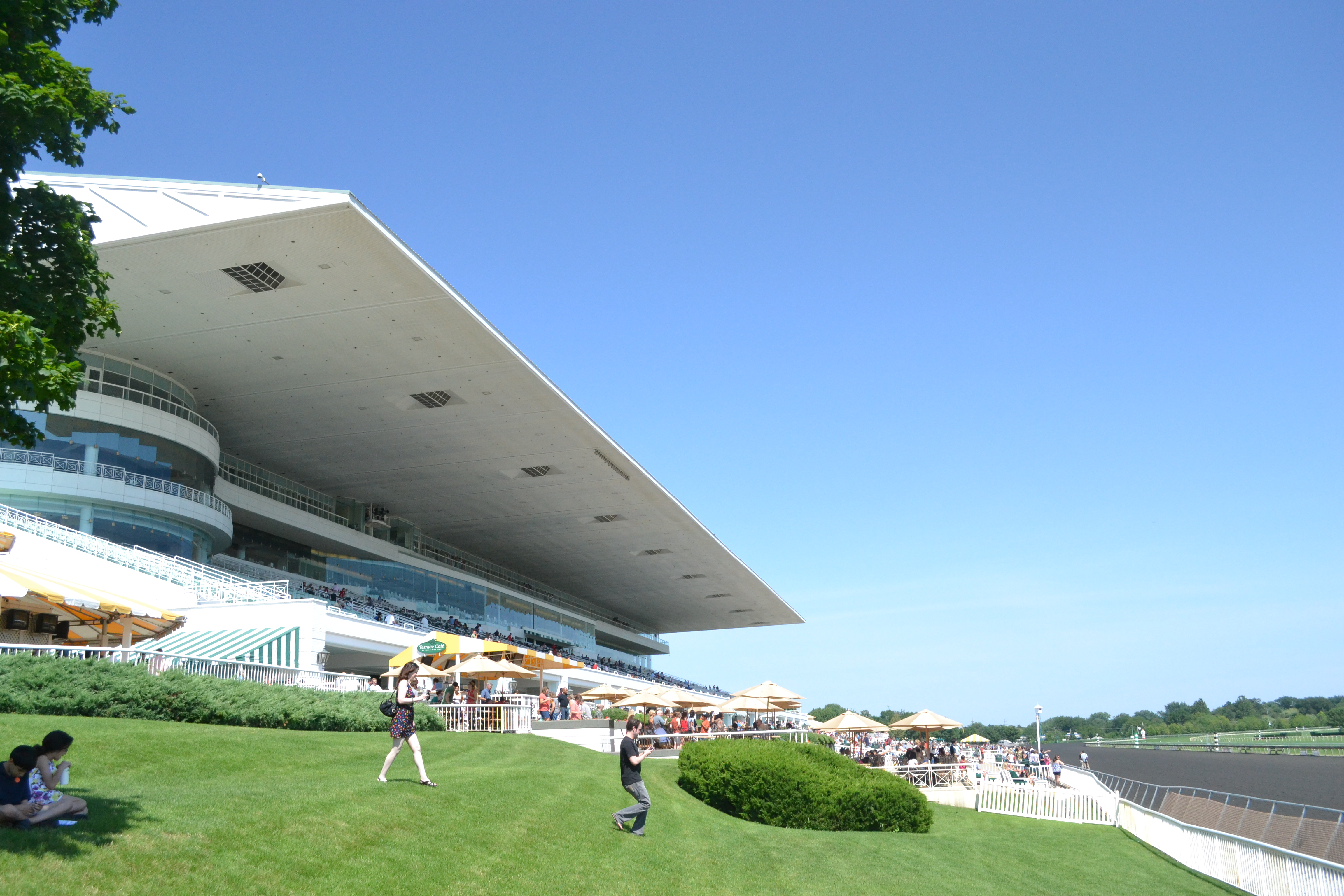 Arlington Park Grandstands from west